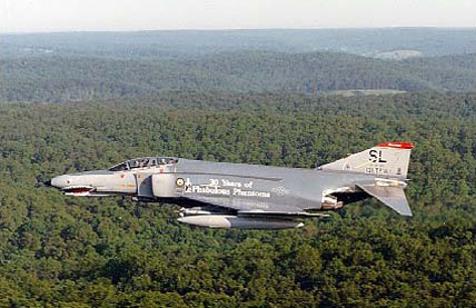 A U.S. Air Force McDonnell Douglas F-4E-32-MC (S/N 66-0338) of the 110st Tactical Fighter Squadron, 131st Tactical Fighter Wing, Missouri Air National Guard, in flight over Missouri (USA) in celebration of "30 years of Phabulous Phantoms".